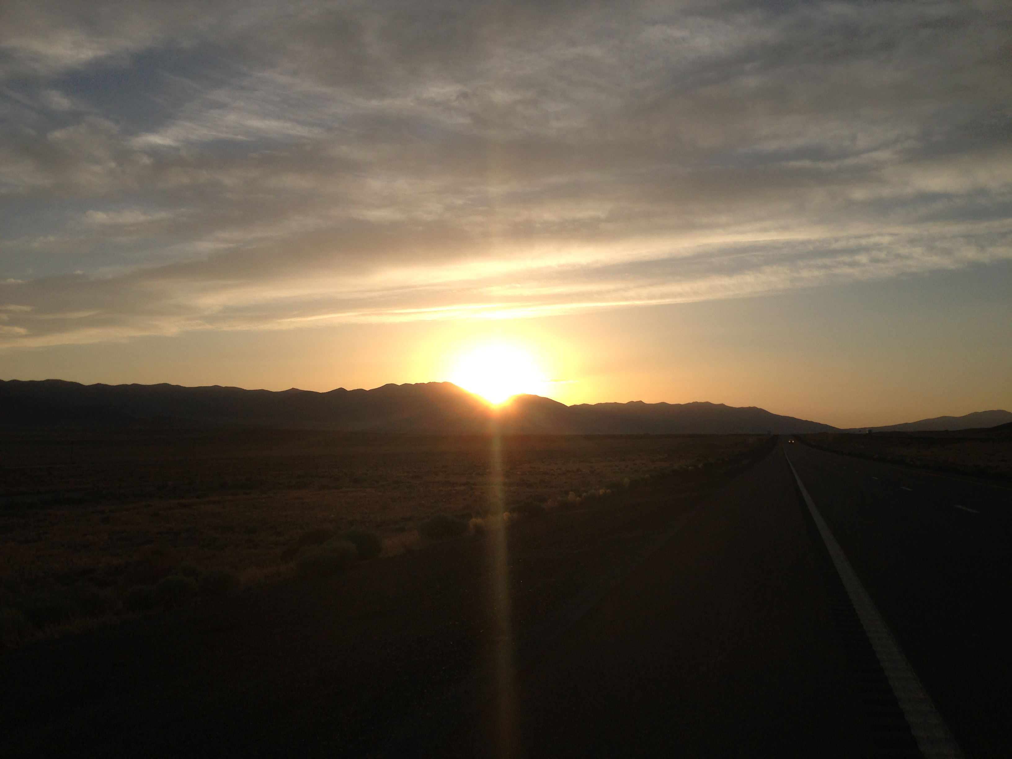 Sun setting over the Toano Range as viewed from Interstate 80 near Ola, Nevada